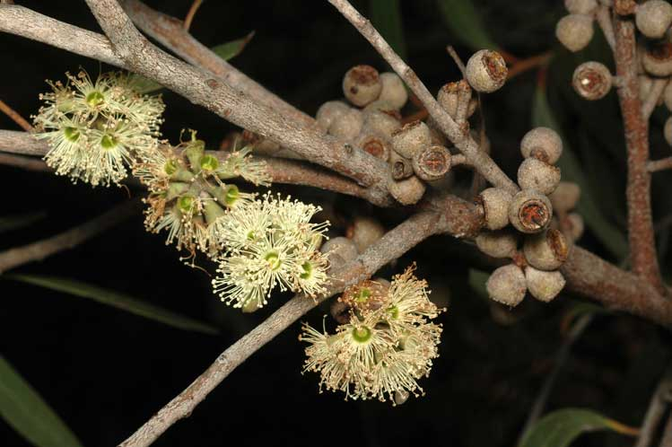 Fruit of Eucalyptus ligustrina in the Australian National Botanic Gardens